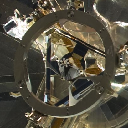 The Final Mission to Hubble The STS-125 crew aboard space shuttle Atlantis captured this still image of the Hubble Space Telescope as the two spacecraft begin their relative separation on May 19, 2009, after having been linked together for nearly a week. During the week, five spacewalks were performed to complete the final servicing mission to the telescope. Note the Soft Capture Mechanism, the ring-like device attached to Hubble’s aft bulkhead.